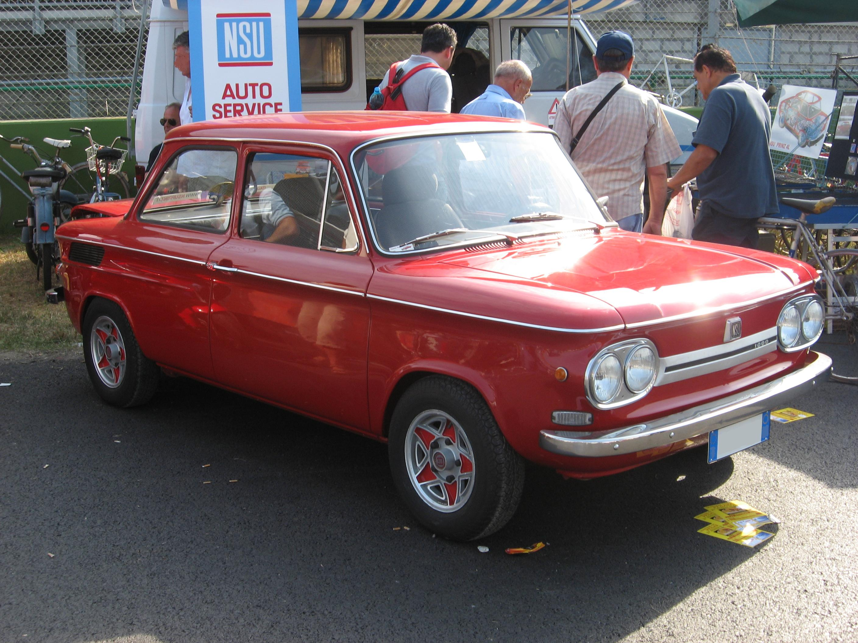 Subject: NSU 1000 Author: Luc106 Date: September 23rd, 2007 Place/Country: Imola Circuit (BO), Italy I release all rights in the public domain.